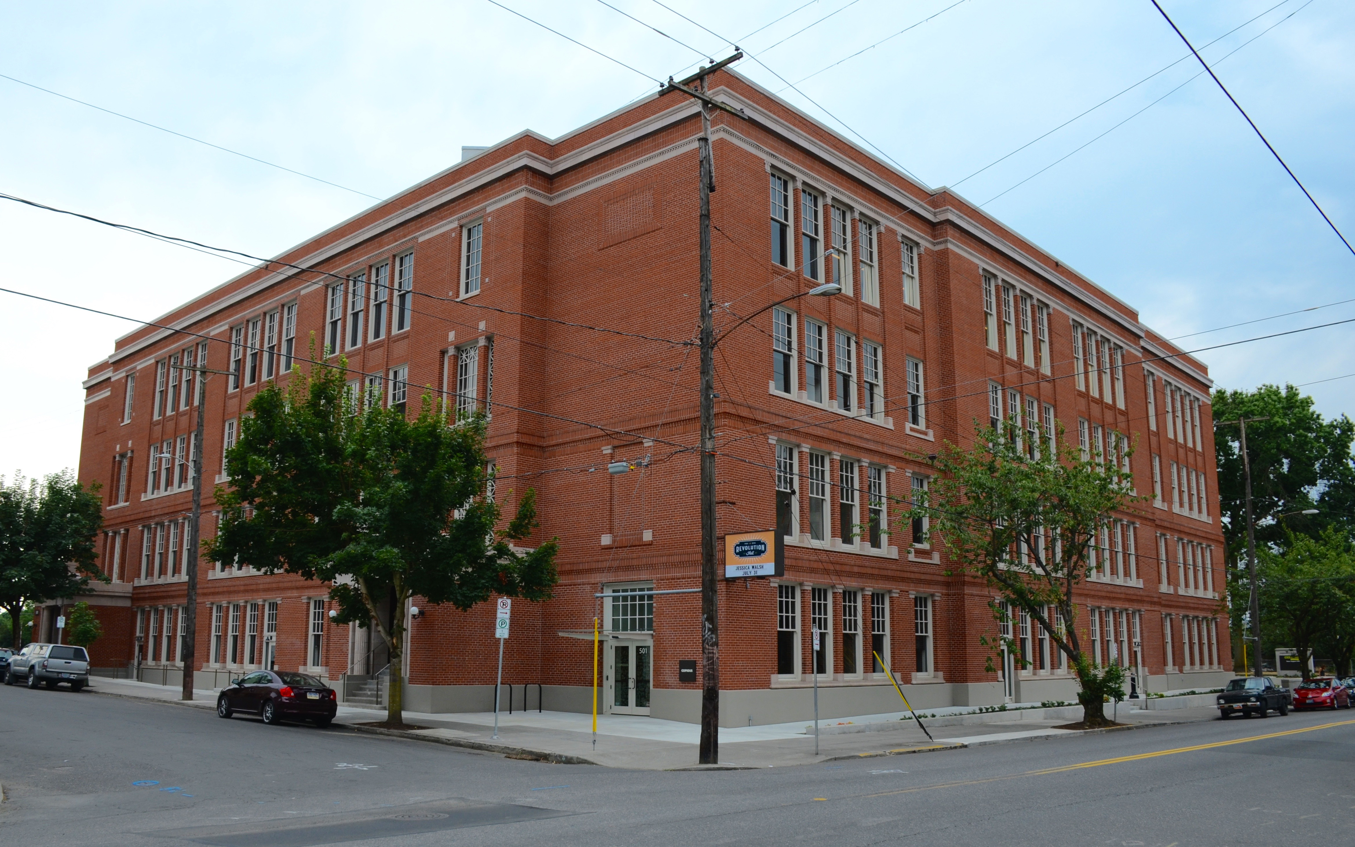 The former Washington High School, in Portland, Oregon, after its 2014-15 renovation. This view from across the intersection of Southeast 14th Avenue and Stark Street shows the building's east (at left) and north sides. The high school closed in 1981, and the building sat mostly unused and boarded-up from 2003 until 2014.